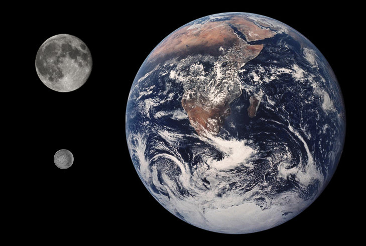 Diameter comparison of the Uranian moon Ariel, Moon, and Earth. Scale: Approximately 28.9 km per pixel.